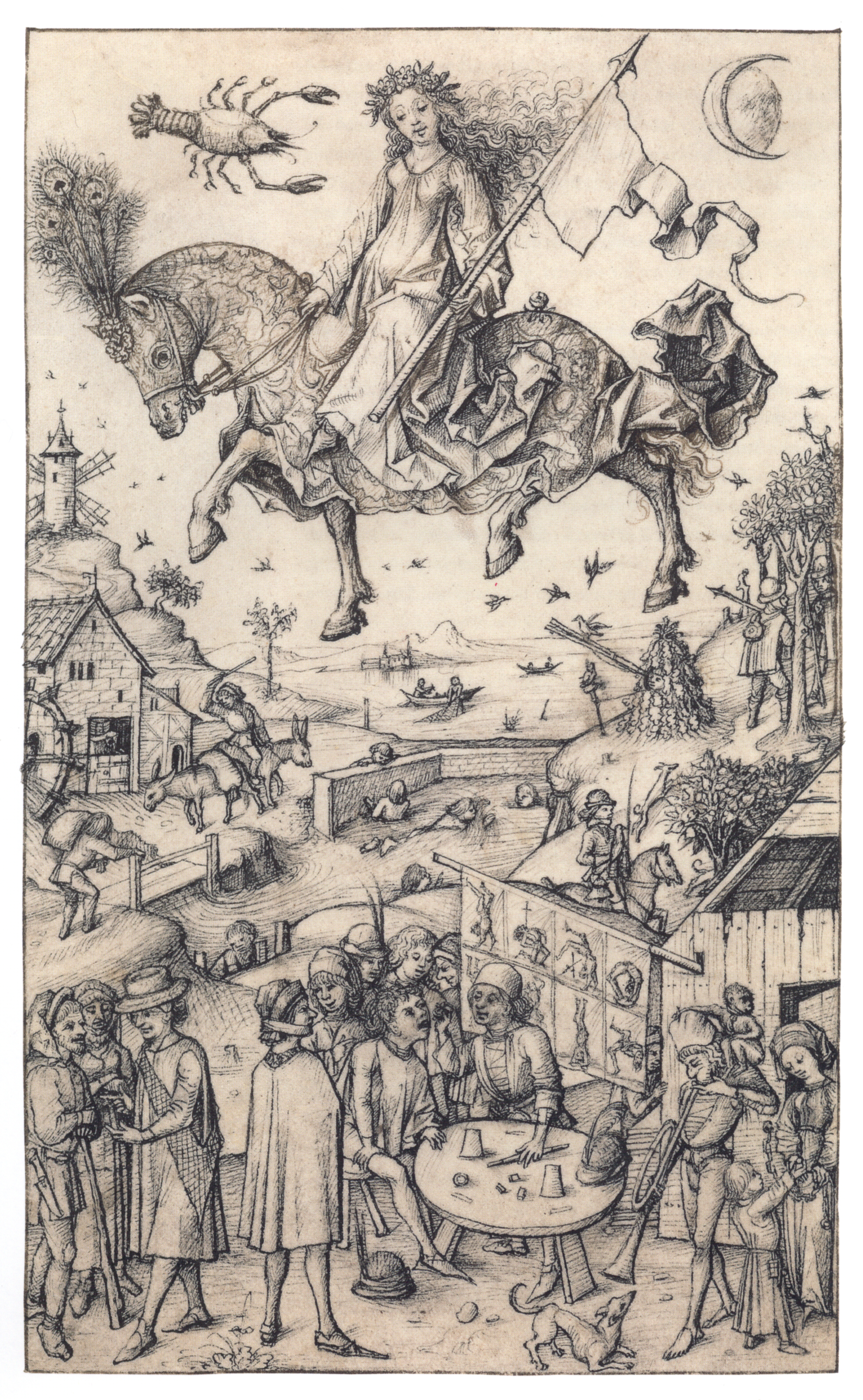 Mittelalterliches Hausbuch von Schloss Wolfegg Fol. 17r: Luna und ihre Kinder Master of the Housebook (fl. between 1475 and 1500) Alternative namesMaster of the House-Book, Master of the Amsterdam Cabinet, Master of 1480DescriptionGerman painter, draughtsman and engraverDate of birth/death14501500Work periodbetween 1475 and 1500Work locationMiddle Rhine, Heidelberg (?), Mainz (?)Authority control : Q460300 VIAF: 79397502 ULAN: 500002780 WGA: MASTER of the Housebook GND: 118546961 RKD: 115714